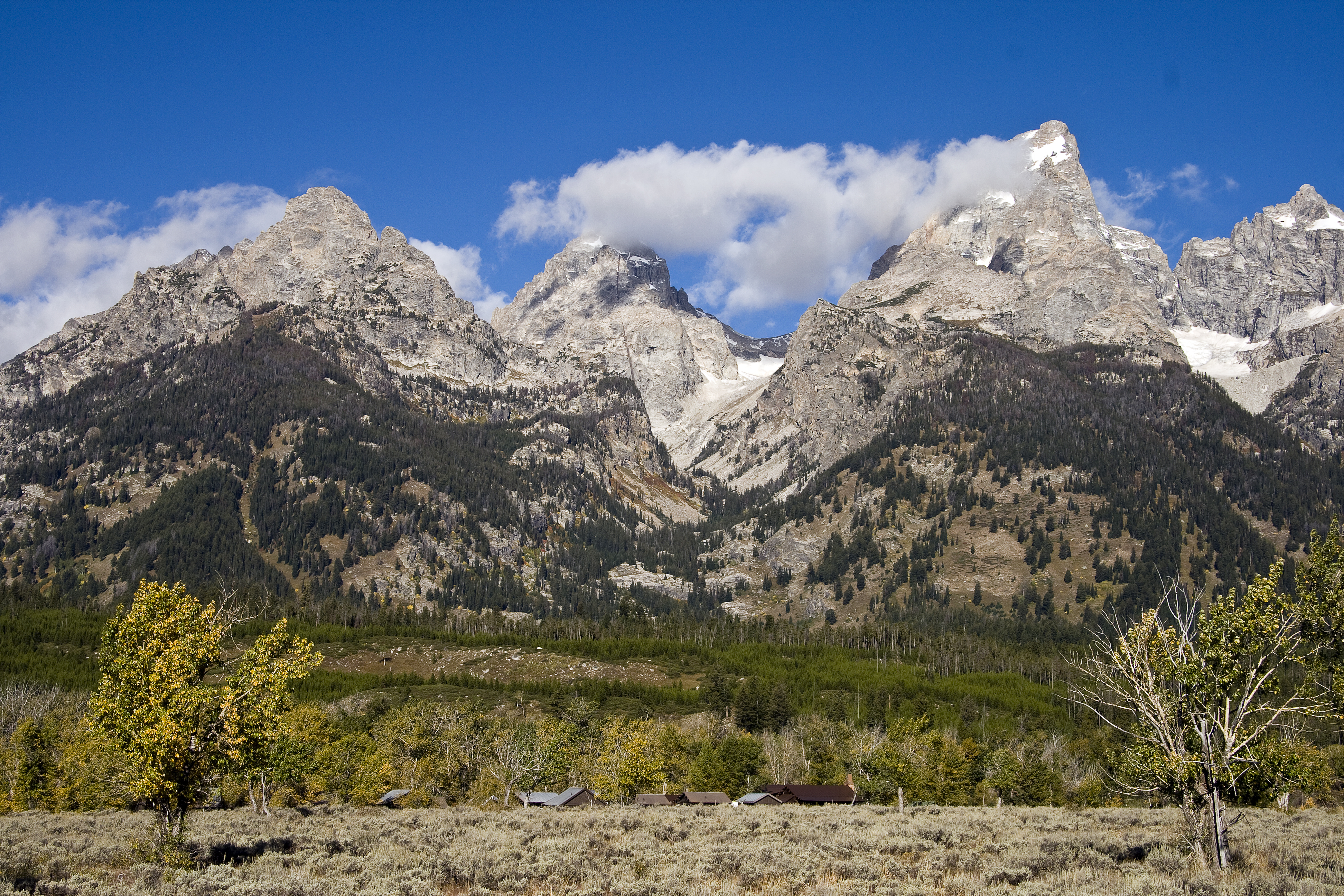 Central Teton Range, Grand Teton National Park, Wyoming, USA. From left, Nez Perce, Middle Teton, Disappointment Peak (hiding Teepee Pillar and Grand Teton), Mt. Owen, with Garnet Canyon and Middle Teton Glacier in the center, Glacier Gulch and Teton Glacier to the right. Highland Historic District in the foreground.